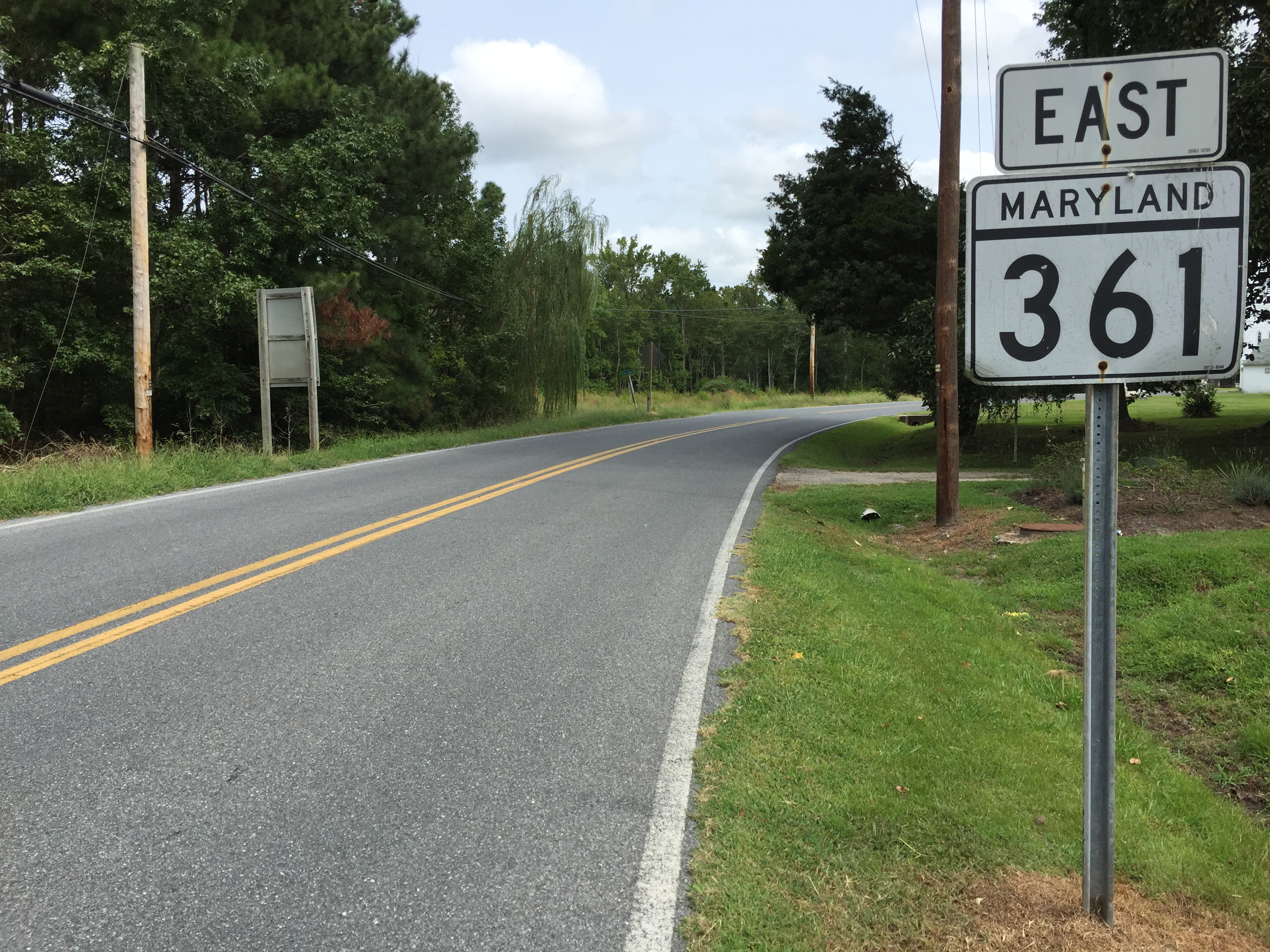 View east along Maryland State Route 361 (Fairmount Road) at Clinton Bozman Road in Upper Fairmount, Somerset County, Maryland